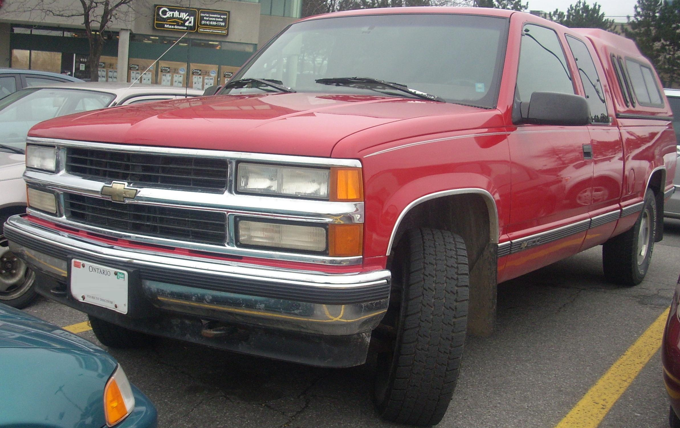 1997-1999 Chevrolet C/K photographed in Montreal, Quebec, Canada.